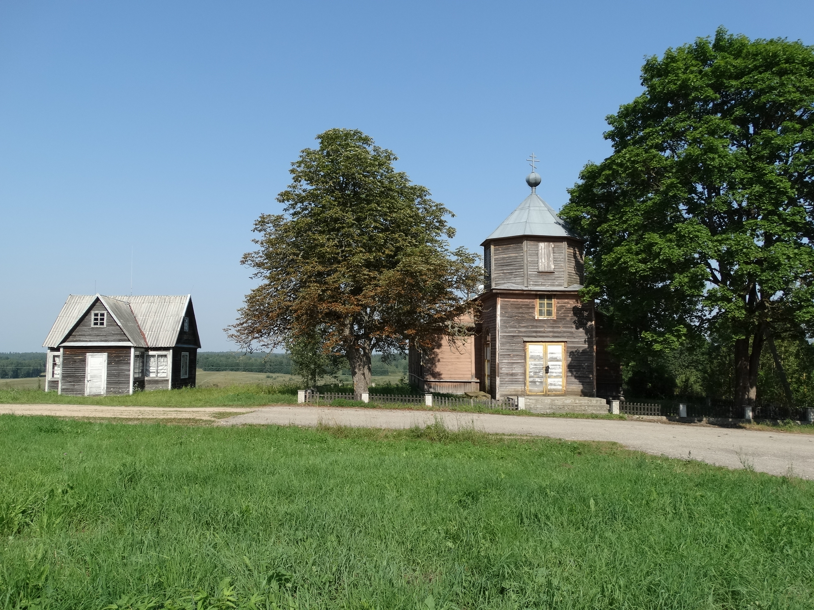 Šeimatis Old Believers Church, Utena district, Lithuania